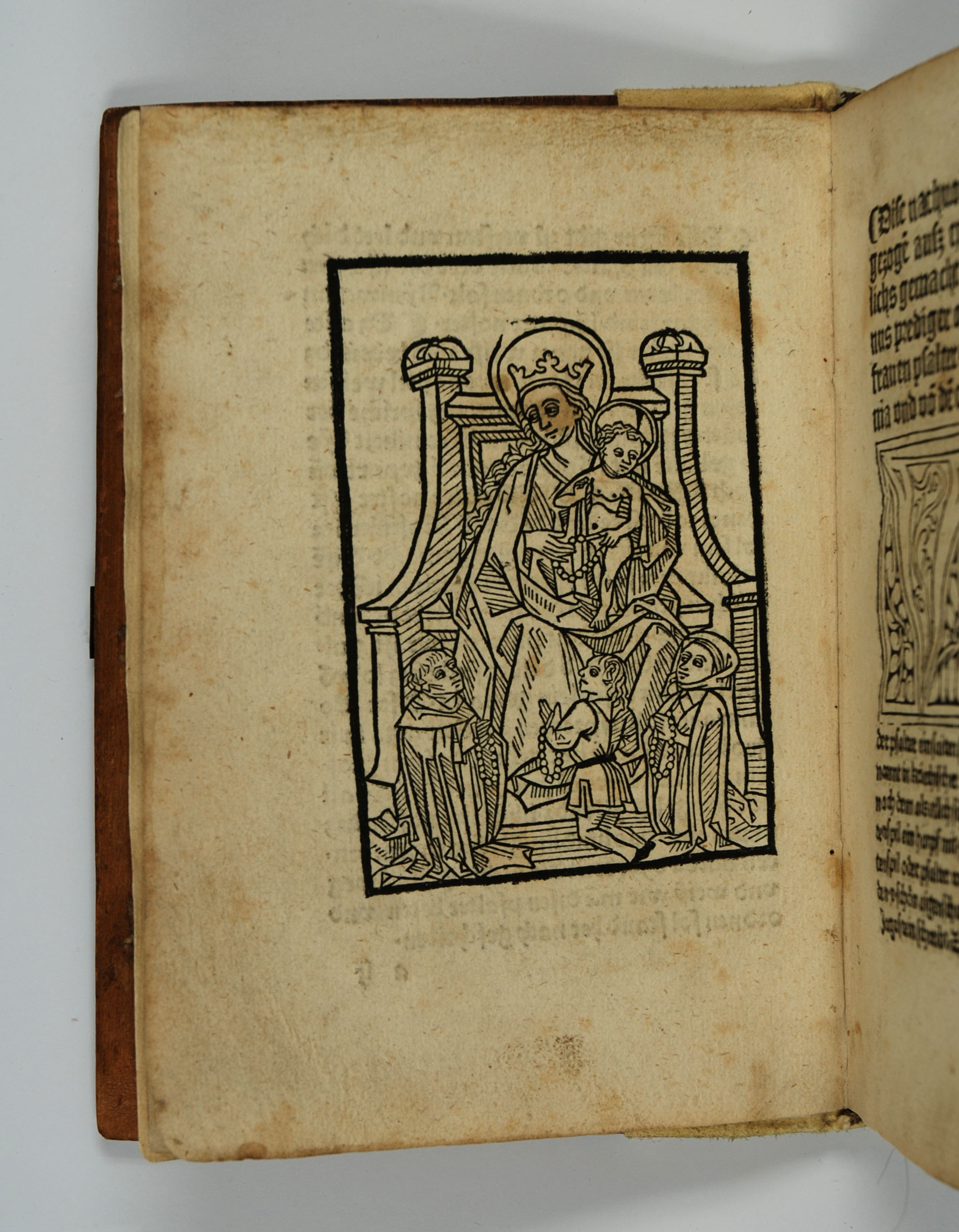 43 Alanus de Rupe, Von dem psalter unnd Rosen krancz unser lieben frauen. Wie man den beten sol.